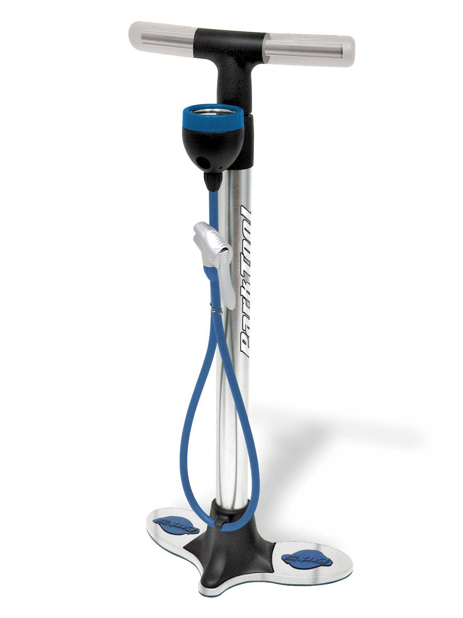 Bycycle Floor Pump